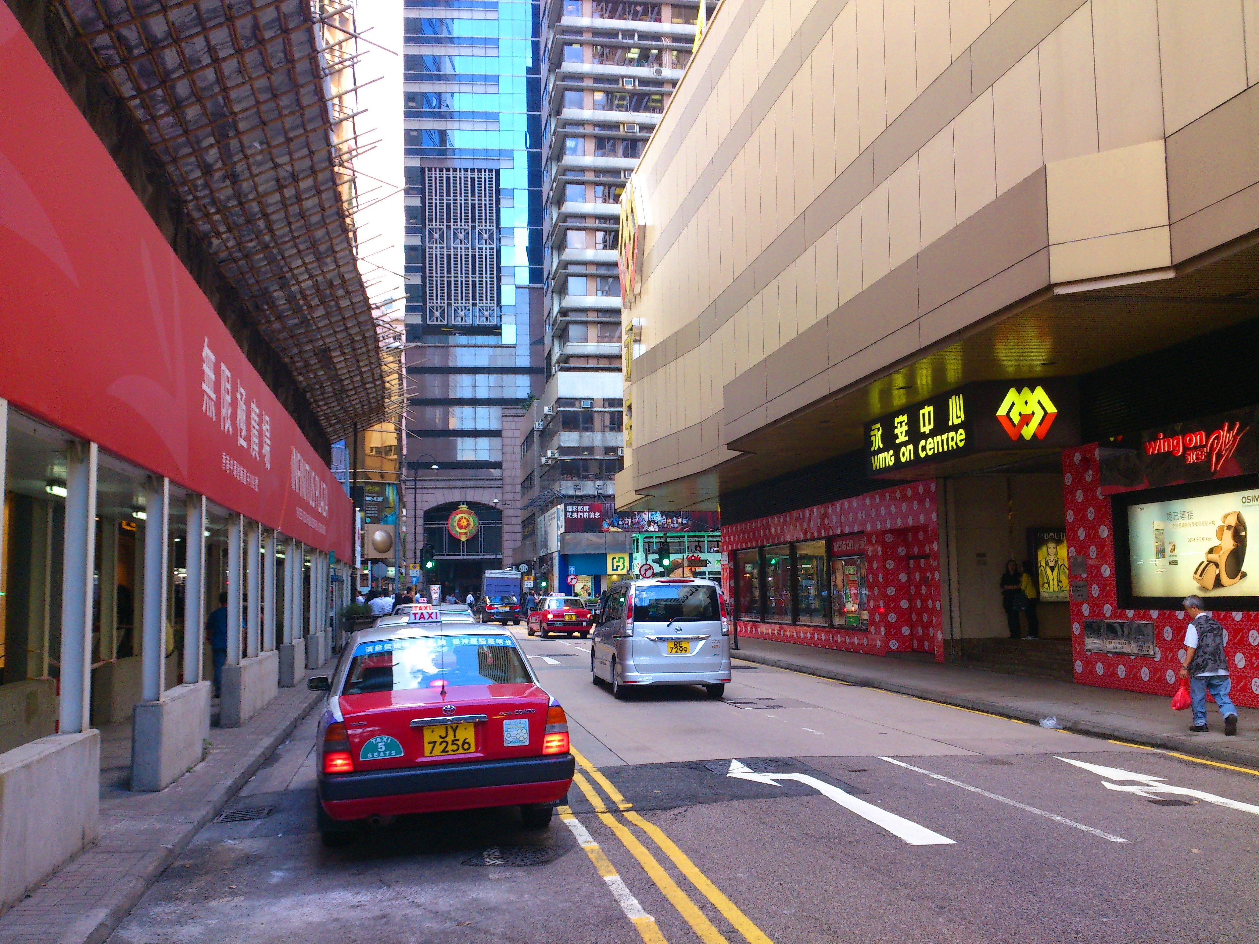 Rumsey Street near Wing On Centre